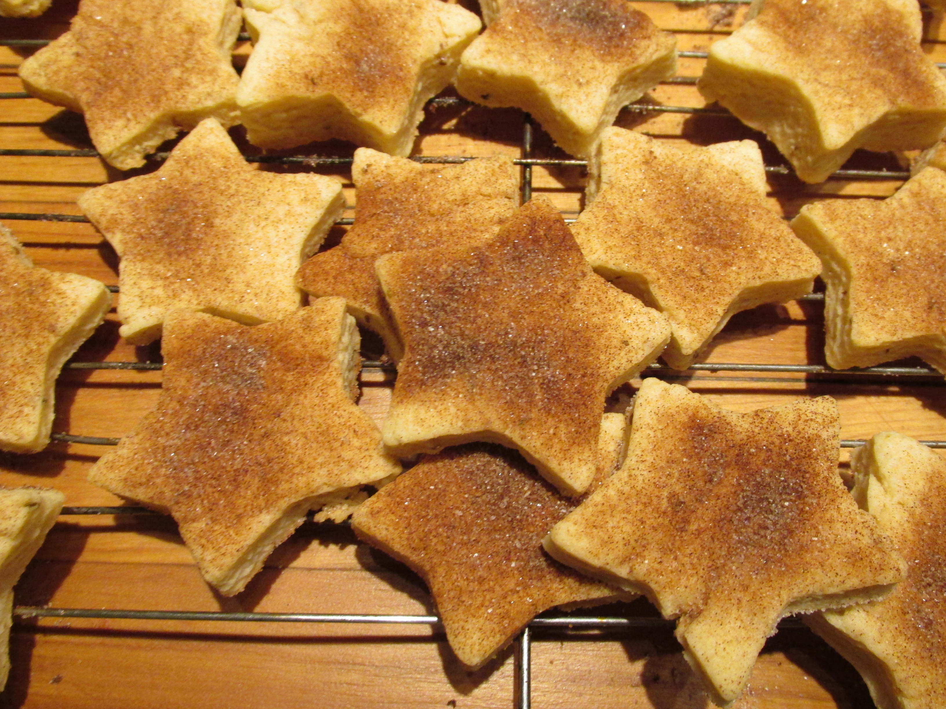 Fresh batch of Biscochitos, Albuquerque New Mexico